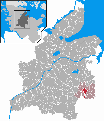 Locator maps of municipalities in Schleswig-Holstein - District Rendsburg-Eckernförde